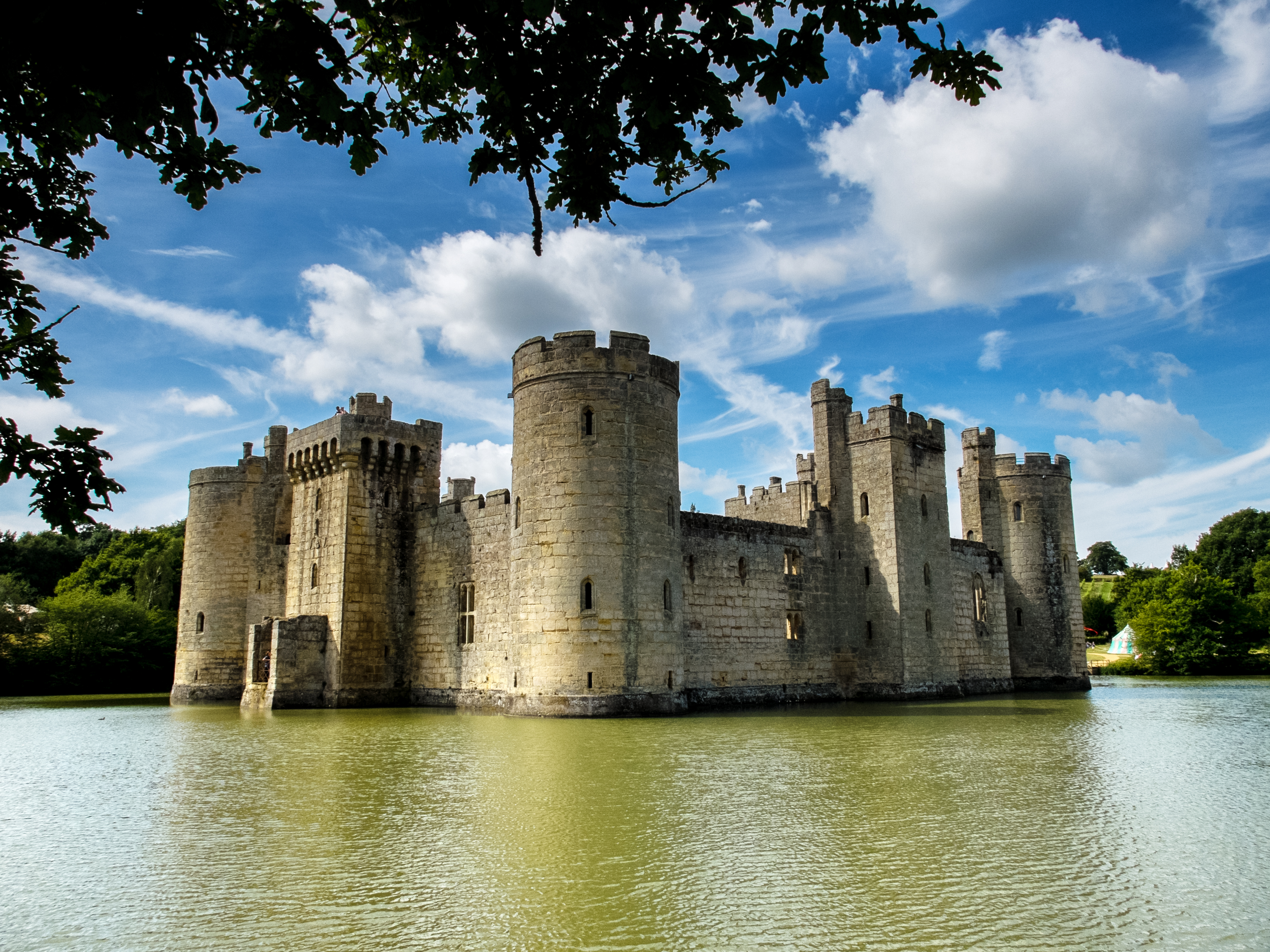 BODIAM CASTLE Wikidata has entry Q639208 with data related to this building.